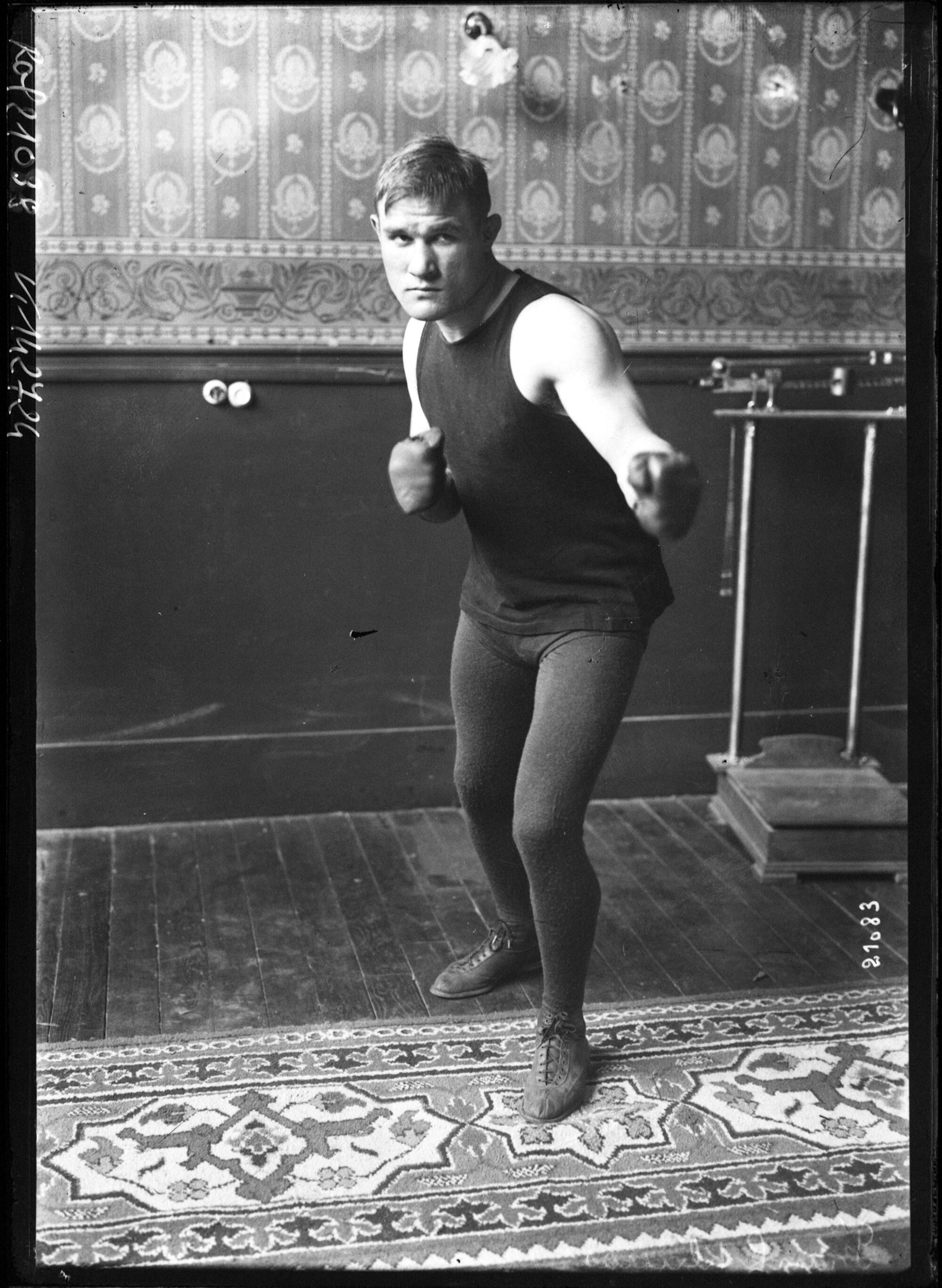 Frank Klaus training [Press Photograph]